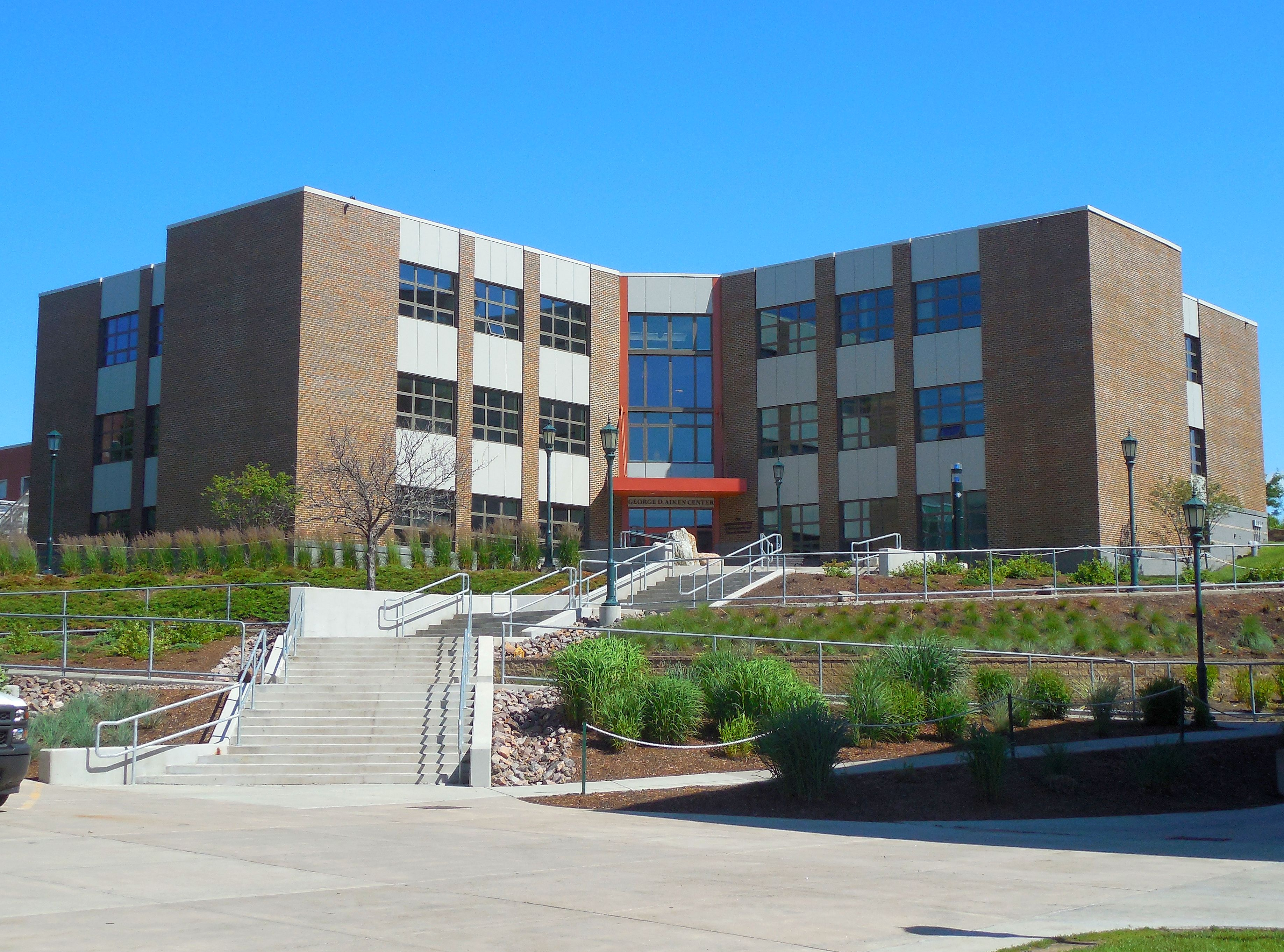 George D. Aiken Center at the University of Vermont (northern entrance); home of the Rubenstein School of Environment & Natural Resources: July 2015